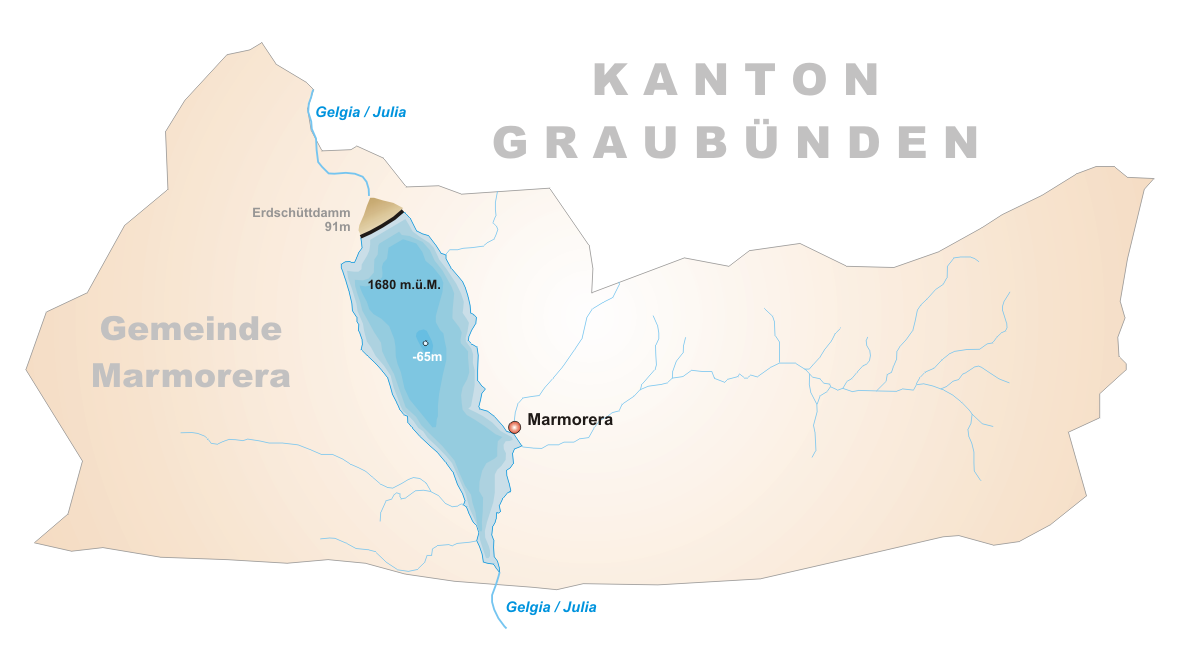 Map of Lai da Marmorera, Switzerland